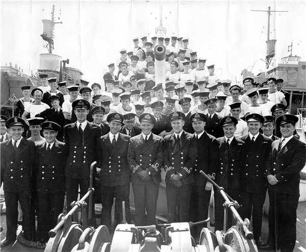 Crew of HMCS Baddeck during WWII.